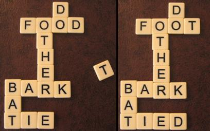 Photo shot of tiles being rearranged in Bananagrams.